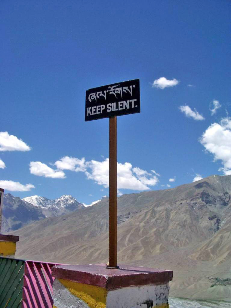 I took this photo in 2004 when I was staying at Key Gompa. Have re-edited it to make it easier to read